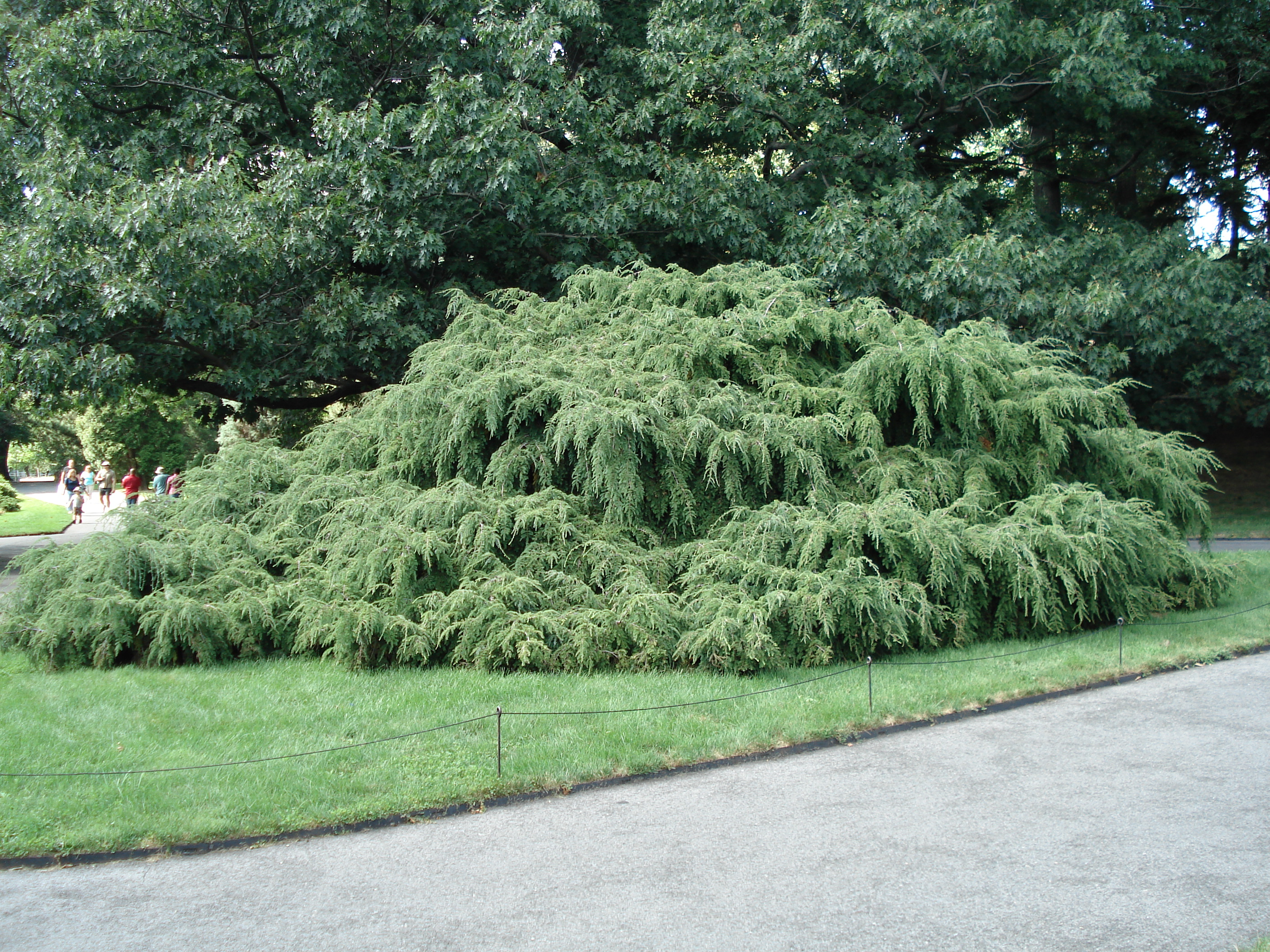 Tsuga canadensis tree at the Brooklyn Botanic Garden in New York City. Copyright 2007 Jeffrey O. Gustafson, released to Commons under the GFDL and the CC-BY-SA-3.0.